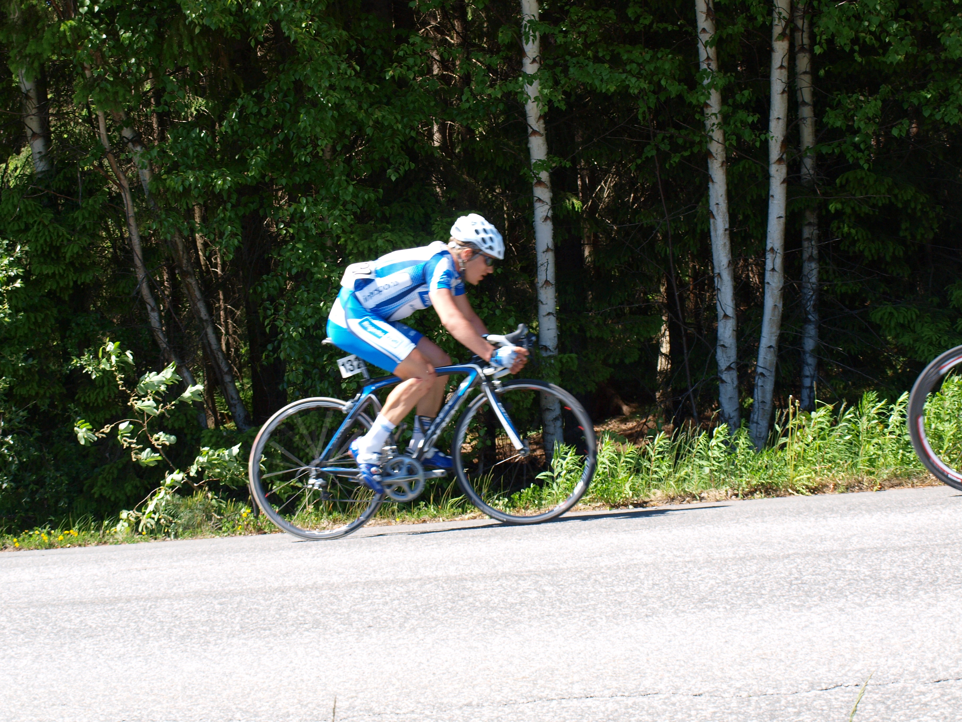 Norwegian cyclist Daniel Slåtto Gomnes, picture from Ringerike Grand Prix 2010.